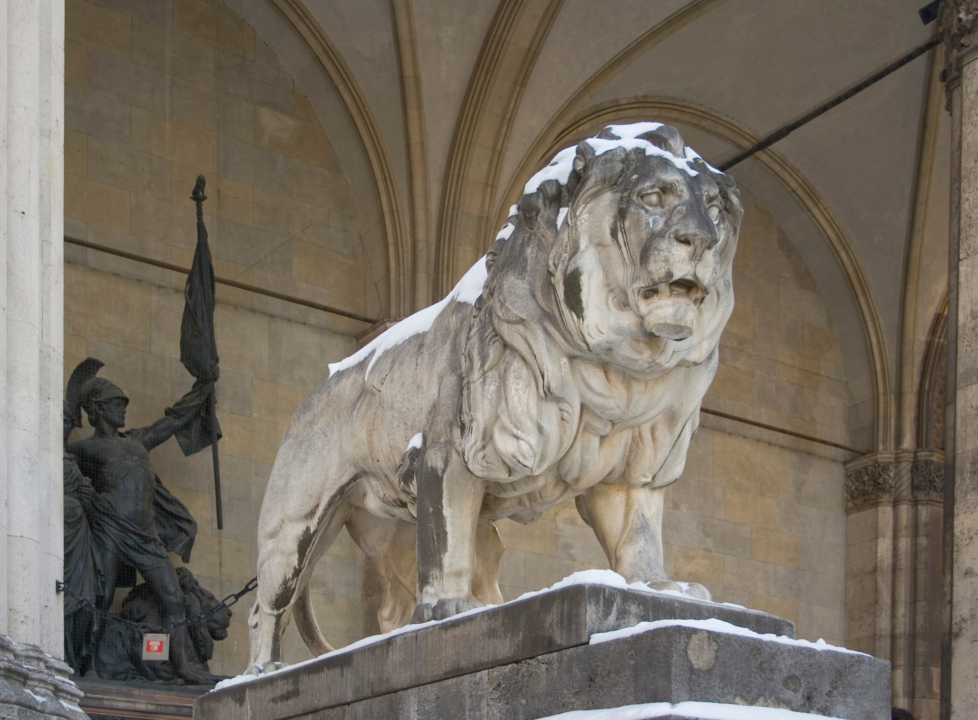 Feldherrnhalle, Munich, Germany